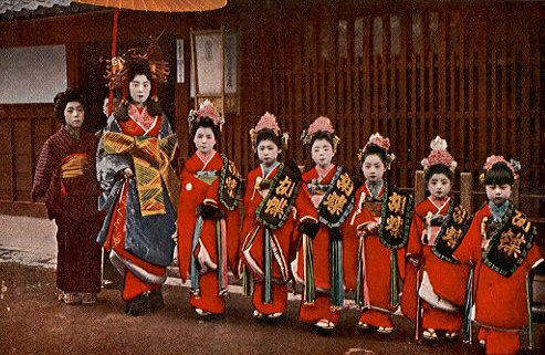 Oiran with shinzo girls